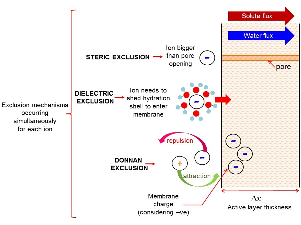 Diagram showing rejection mechanisms that prevent solutes from entering the pores in nanofiltration. These include steric exclusion (size-based exclusion at the pore opening), Donnan effect (repulsion or attraction effect from electrical potential caused by ion concentration differences across a membrane) and dielectric exclusion (resistance to the solute entering the membrane pores due to an energy barrier associated with shedding of the solute hydration shell in order to enter the pore).[1]